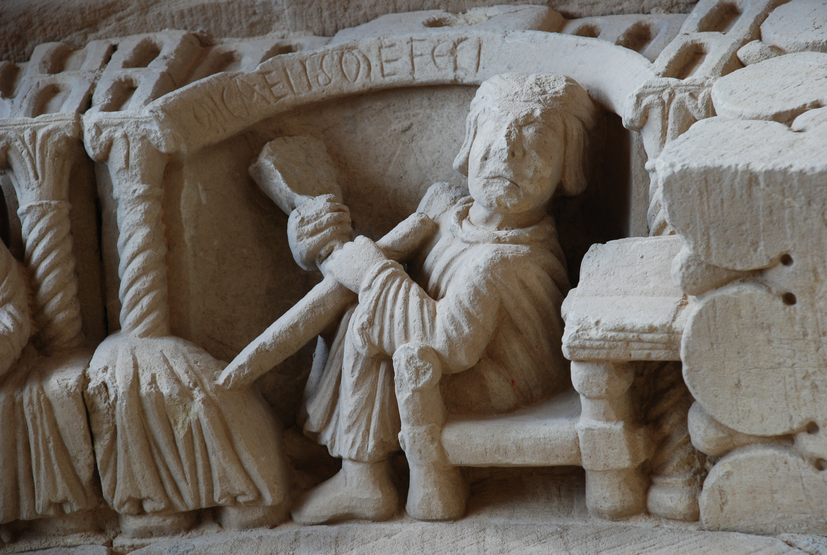 Detail from the portal of the romanesque Church of Saints Cornelio & Cipriano in Palencia, northwestern Spain. "Micaelis me fecit" (Latin for "Michael made/built me") is the signature of Micaelis, a master builder.